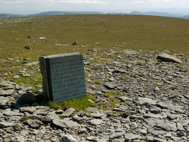 Commemorative stone for the first landing of an aeroplane on Helvellyn